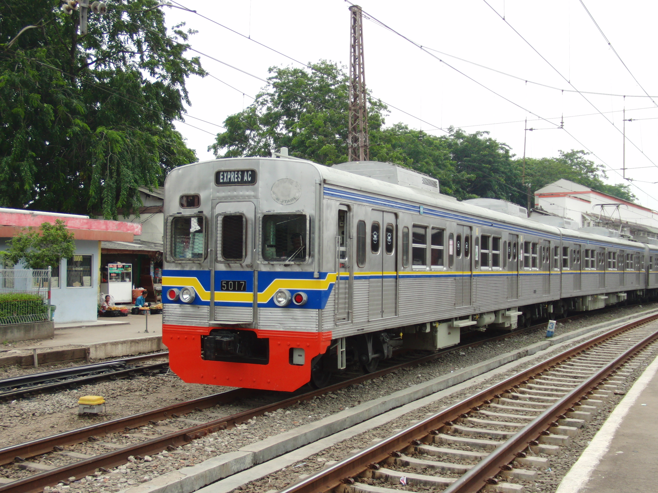 KRL Jabotabek 5000 series EMU set 5817 on an Express train at Jakarta Kota Station